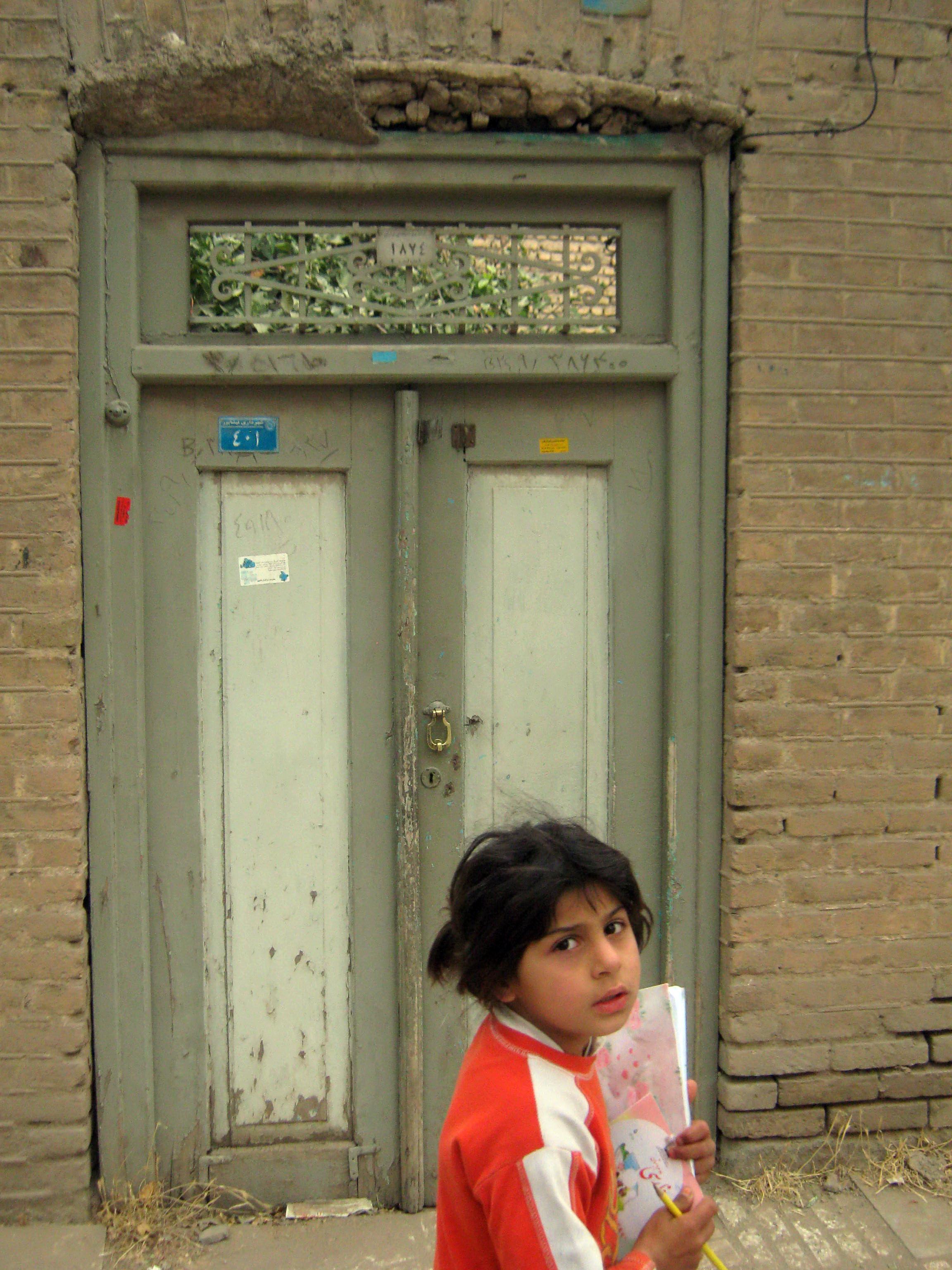 Iranian Nishapuri Elementary schoolgirl with texbook going to her classmate house for study together at evening - Aliov st - Nishapur - fron of wooden door of an old house